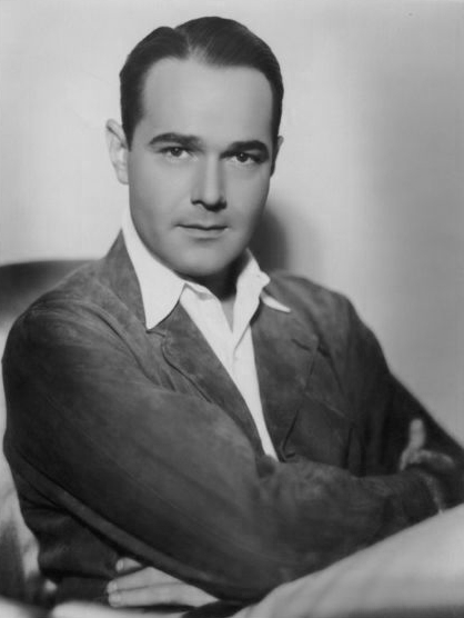 William Haines. Studio publicity portrait